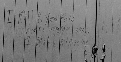 In 1990, two years after April Tinsley’s murder, this message appeared on a barn door near where her body was recovered.